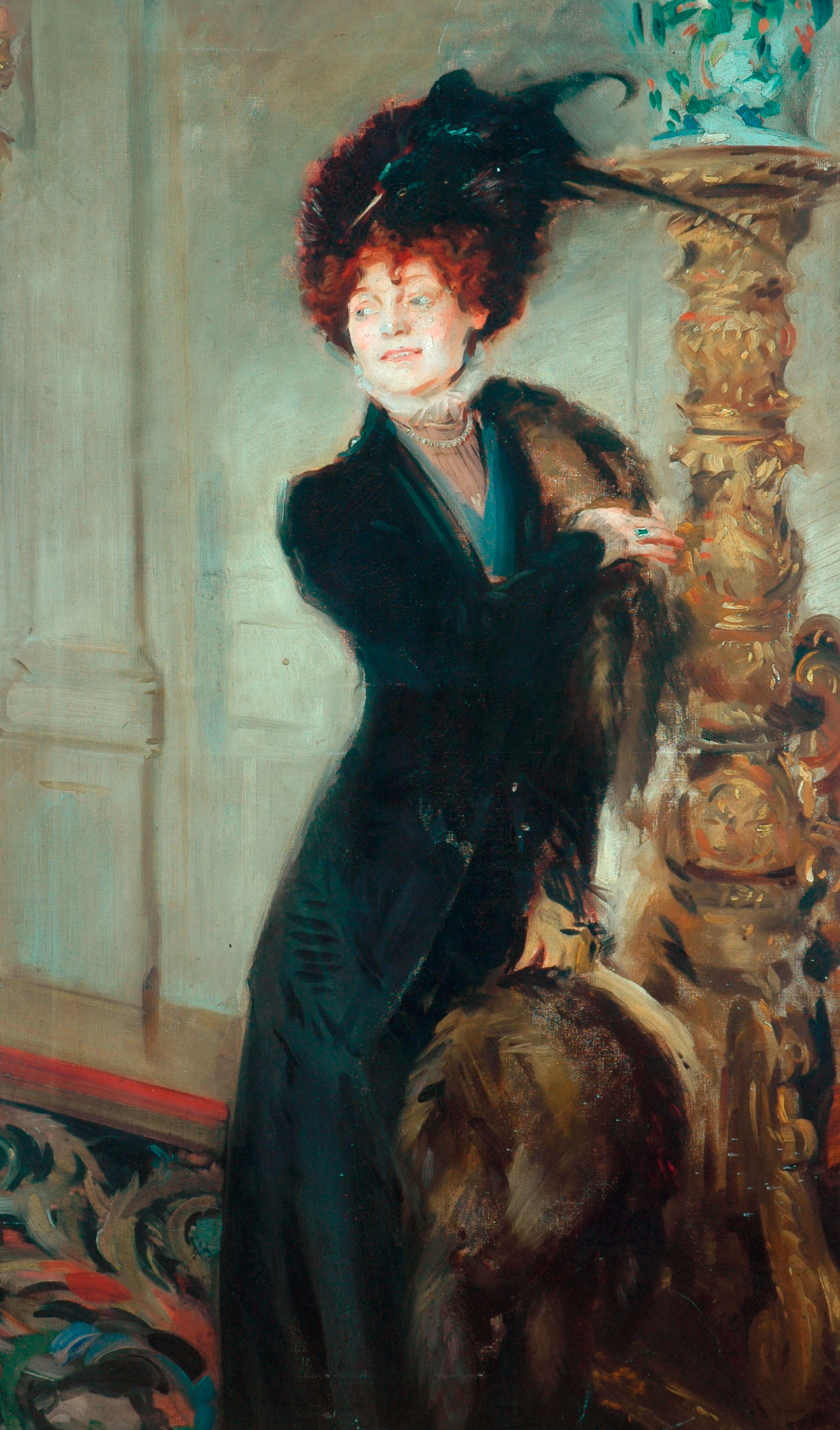 Ranken, William Bruce Ellis; Mrs Emile Mond; The Hepworth Wakefield